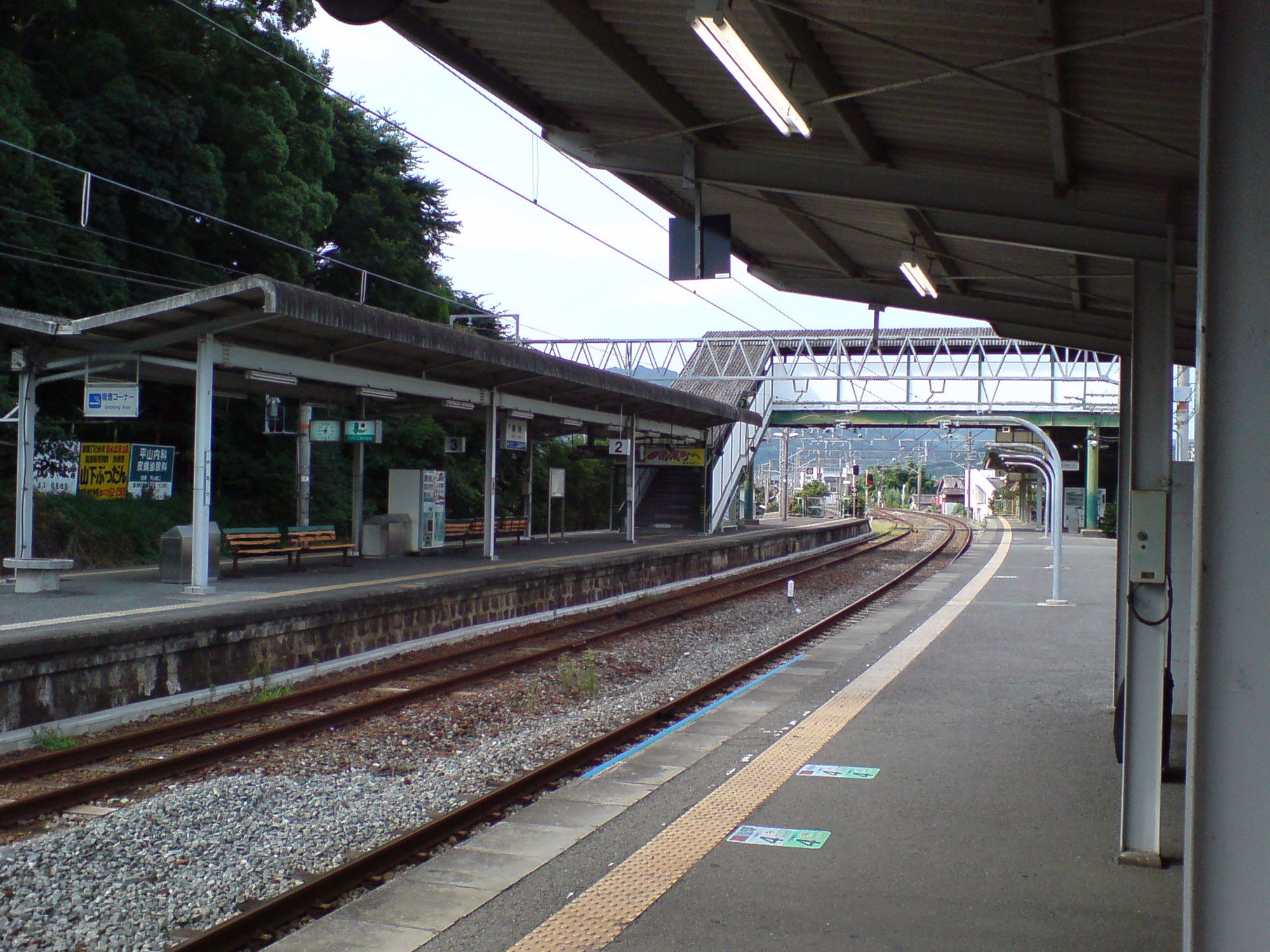 YUASA Station belonging to Kisei Main Line of West Japan Railway Company in Japan Wakayama Yuasa-town